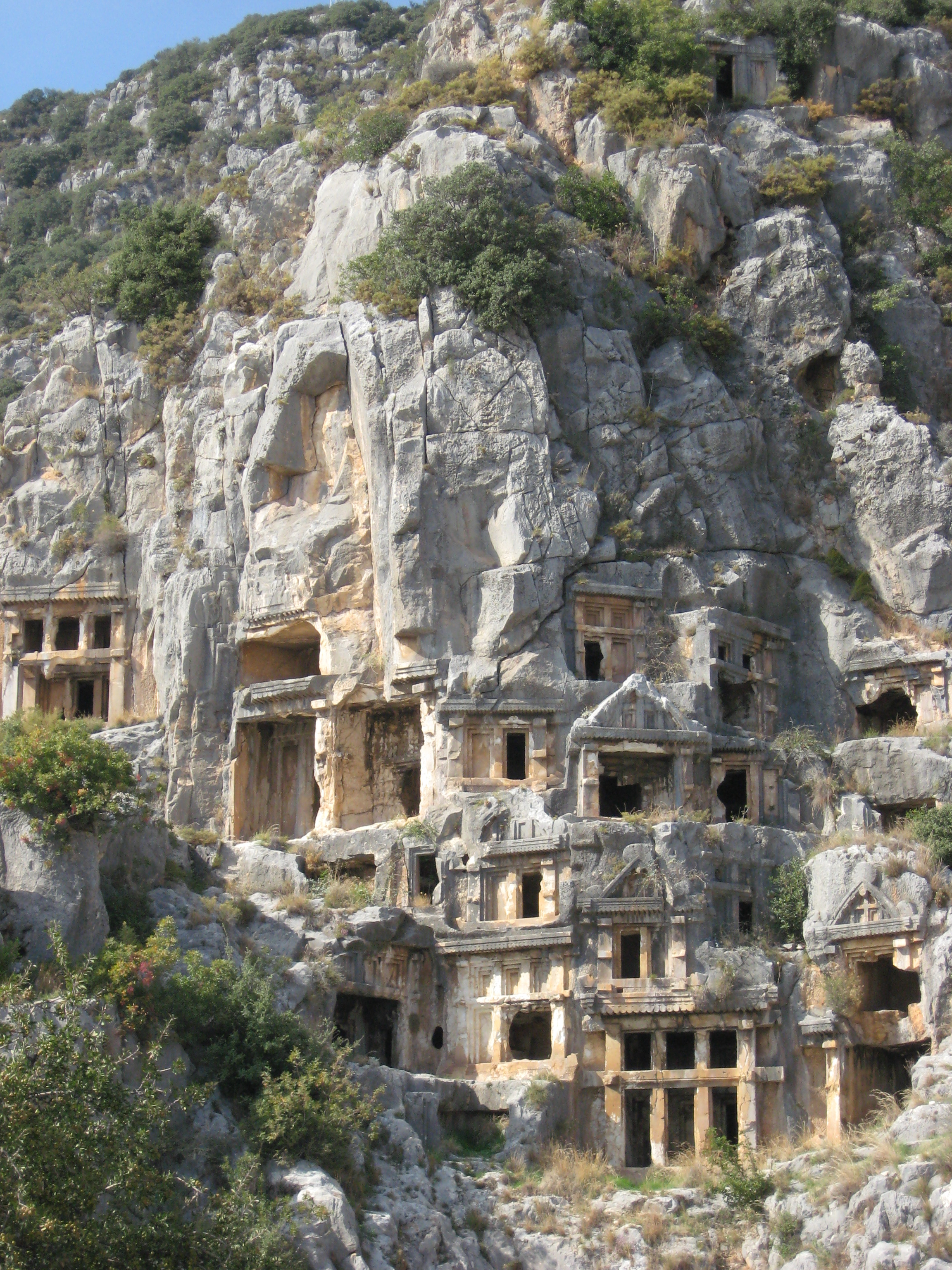 Myra, Turkey.